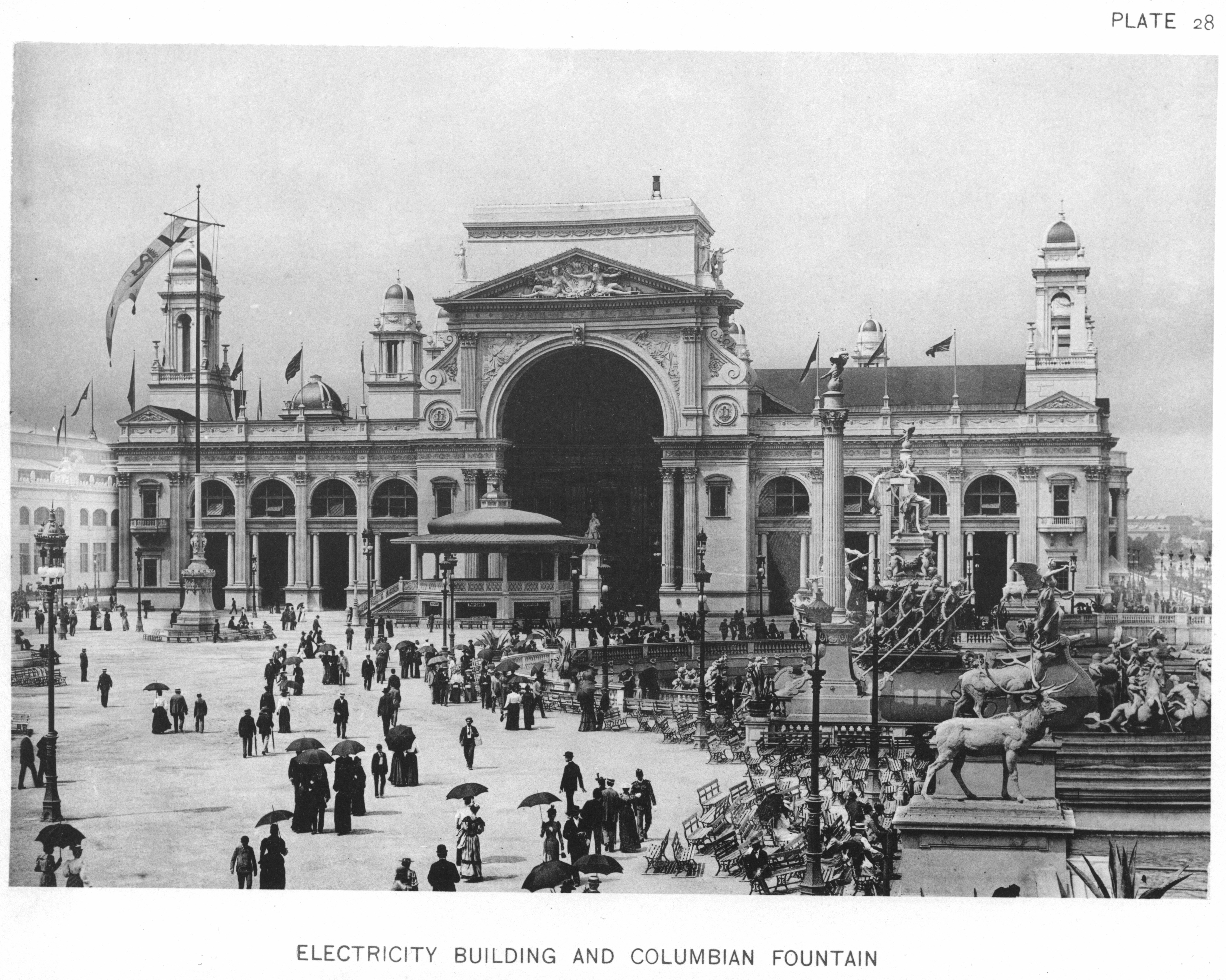 Official Views Of The World's Columbian Exposition: Electricity Building And Columbian Fountain